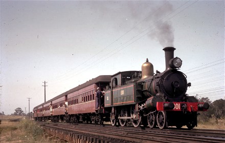 1301 on a special excursion